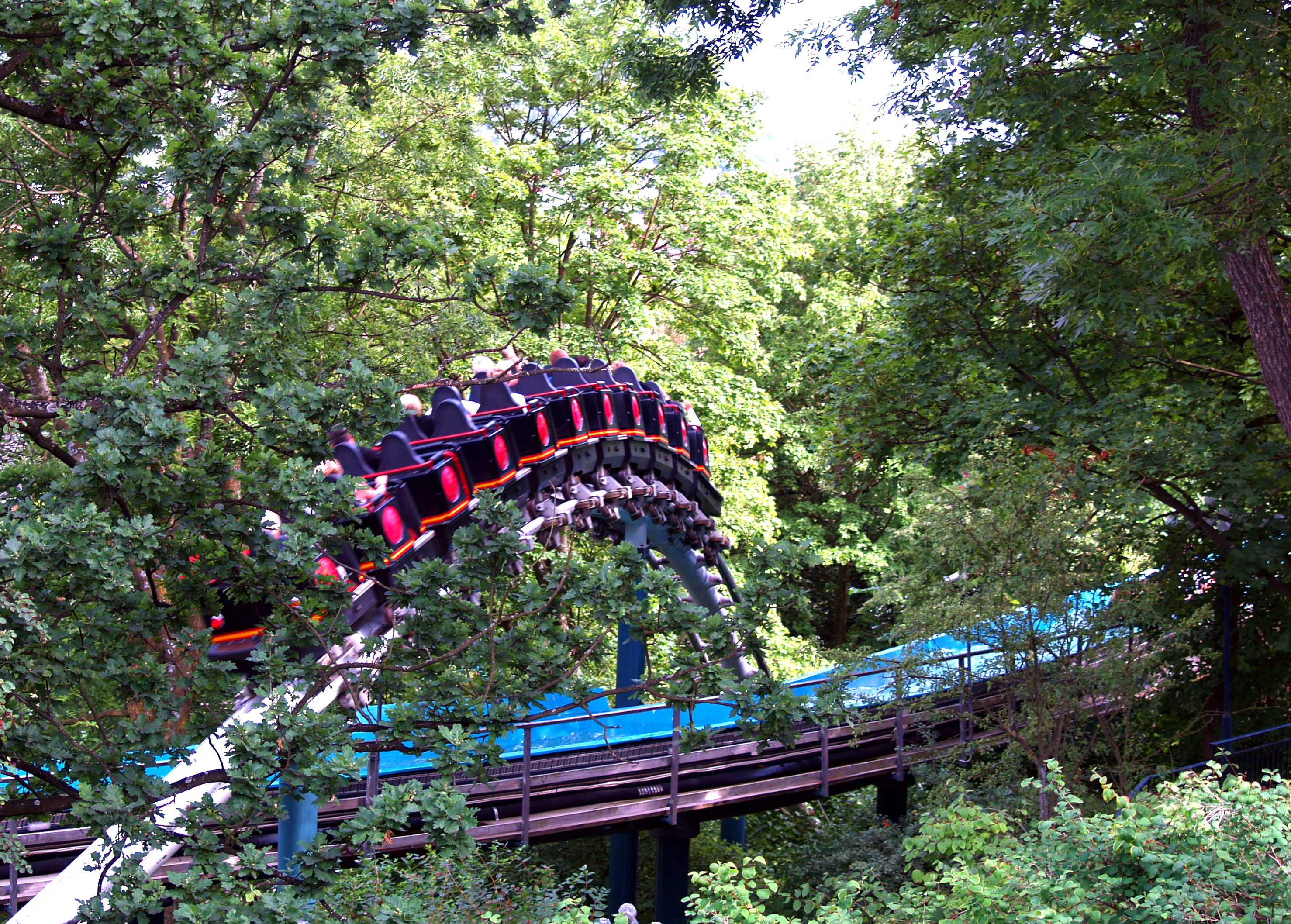 Lisebergbanan at Liseberg in Gothenburg, Sweden.